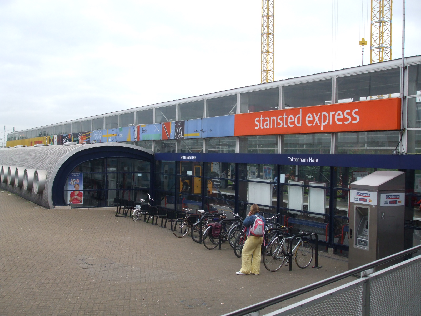 Stansted Express signage on the northbound side of Tottenham Hale station